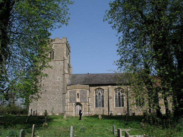 St Andrew's parish church, Wickham Skeith, Suffolk, seen from south-southeast